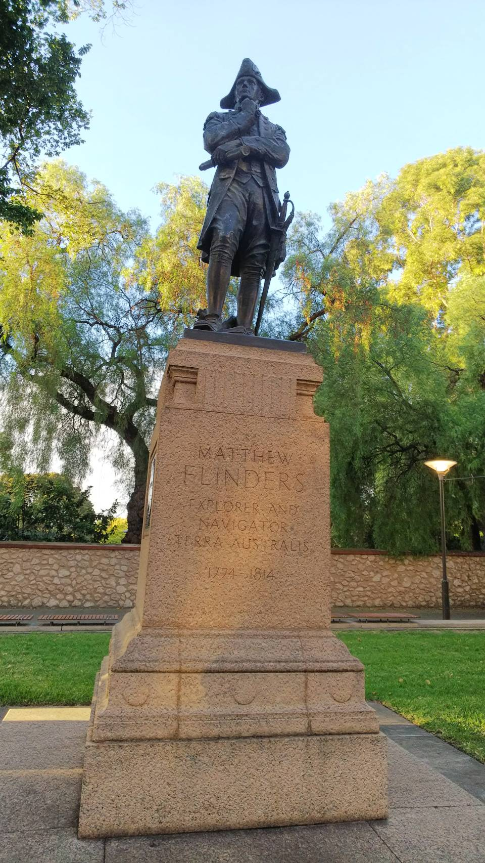 Taken in Adelaide centre, Australia